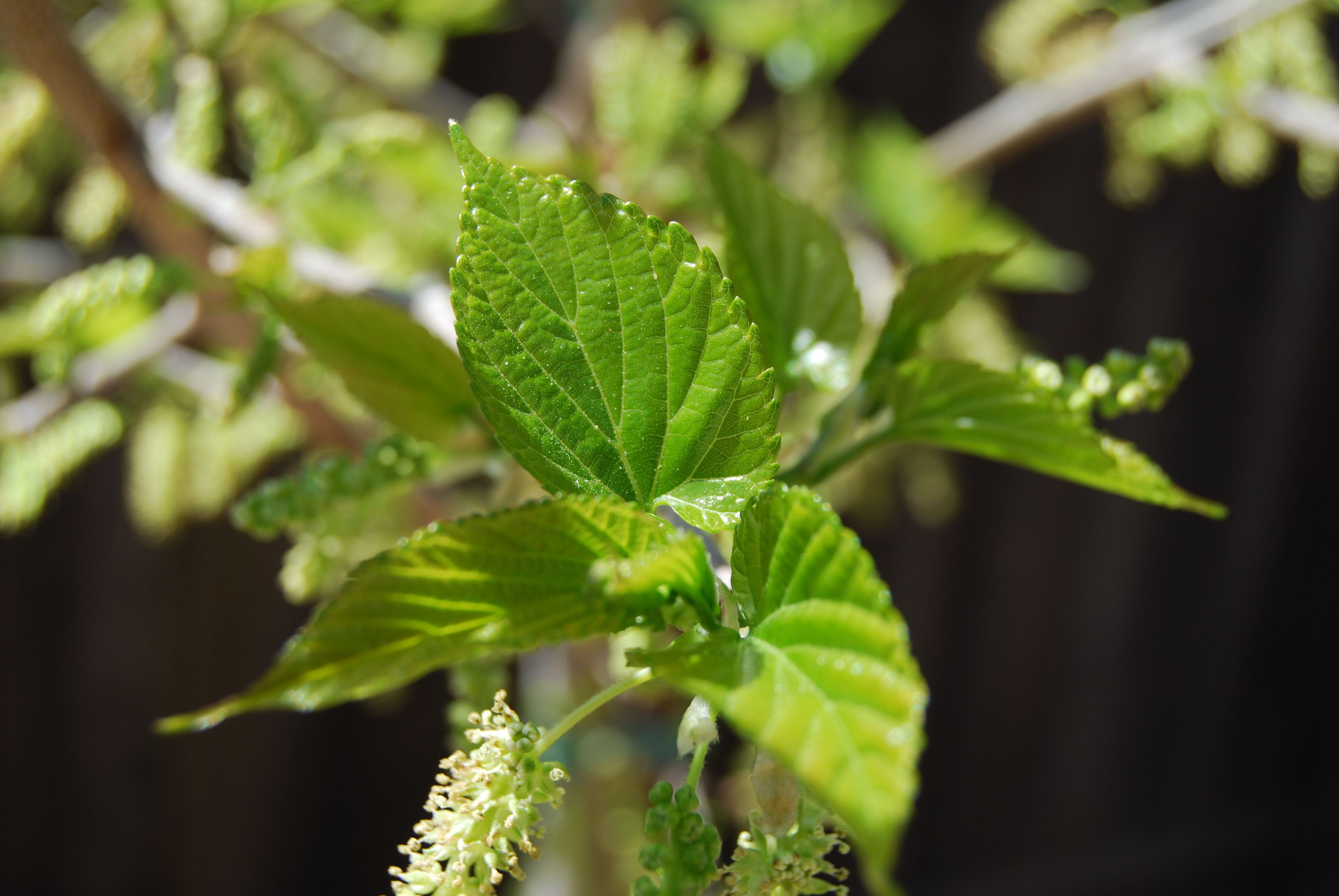 A close-up of young, budding leaves on a Morus alba (White Mulberry) in the Spring.